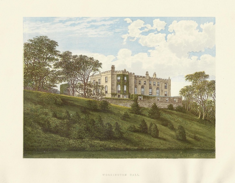 Print of Workington Hall